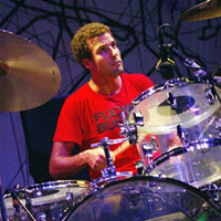 Cool picture of John Theodore